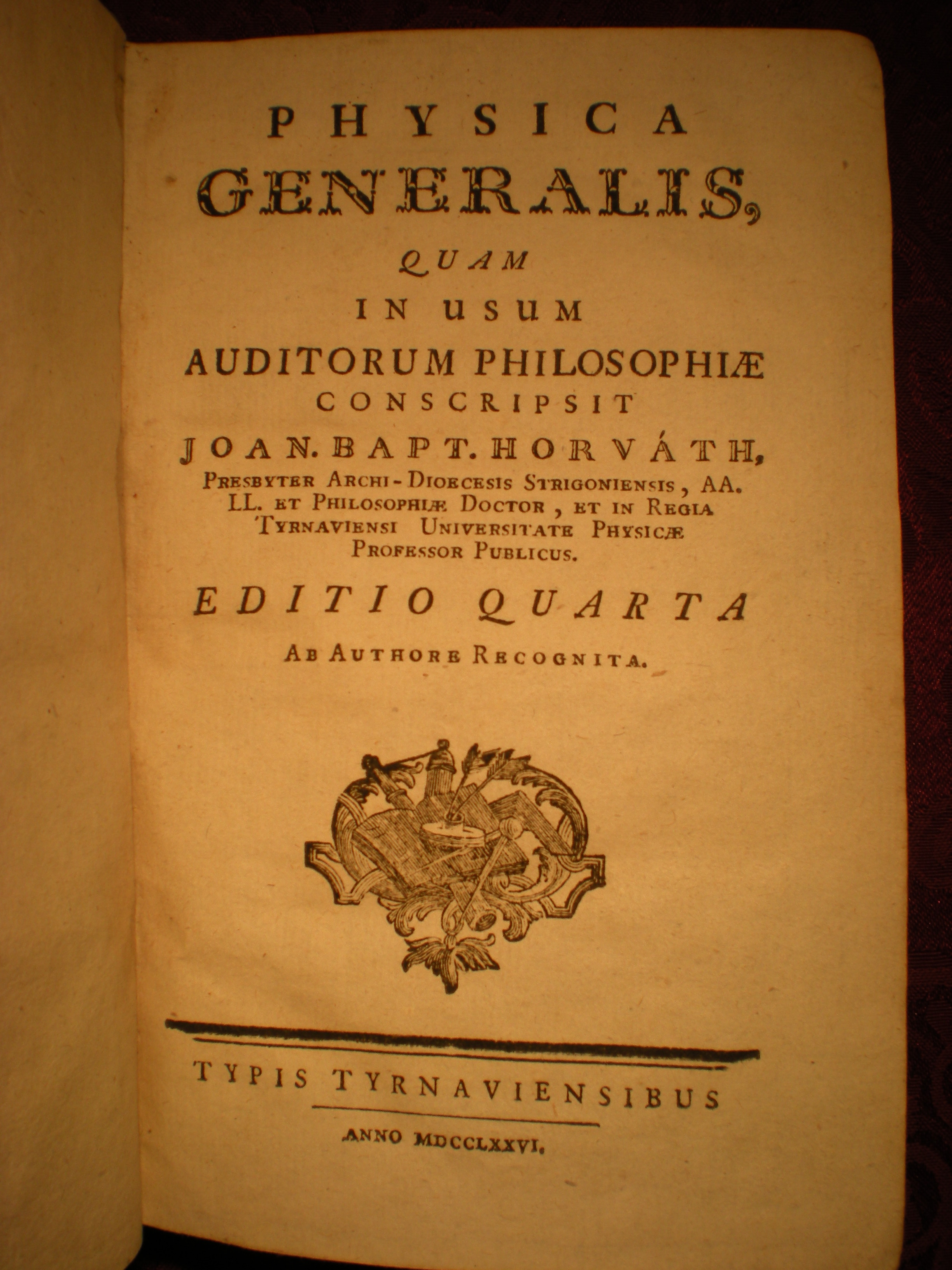 Title page of Horvath's Physica Generalis (1776).